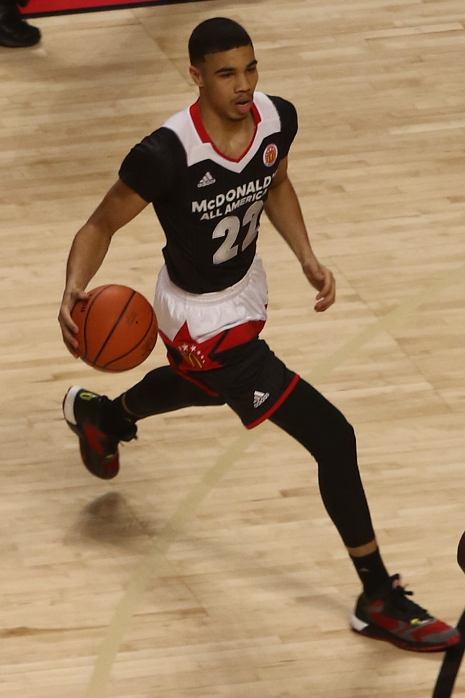 Jayson Tatum at the w:2016 McDonald's All-American Boys Game